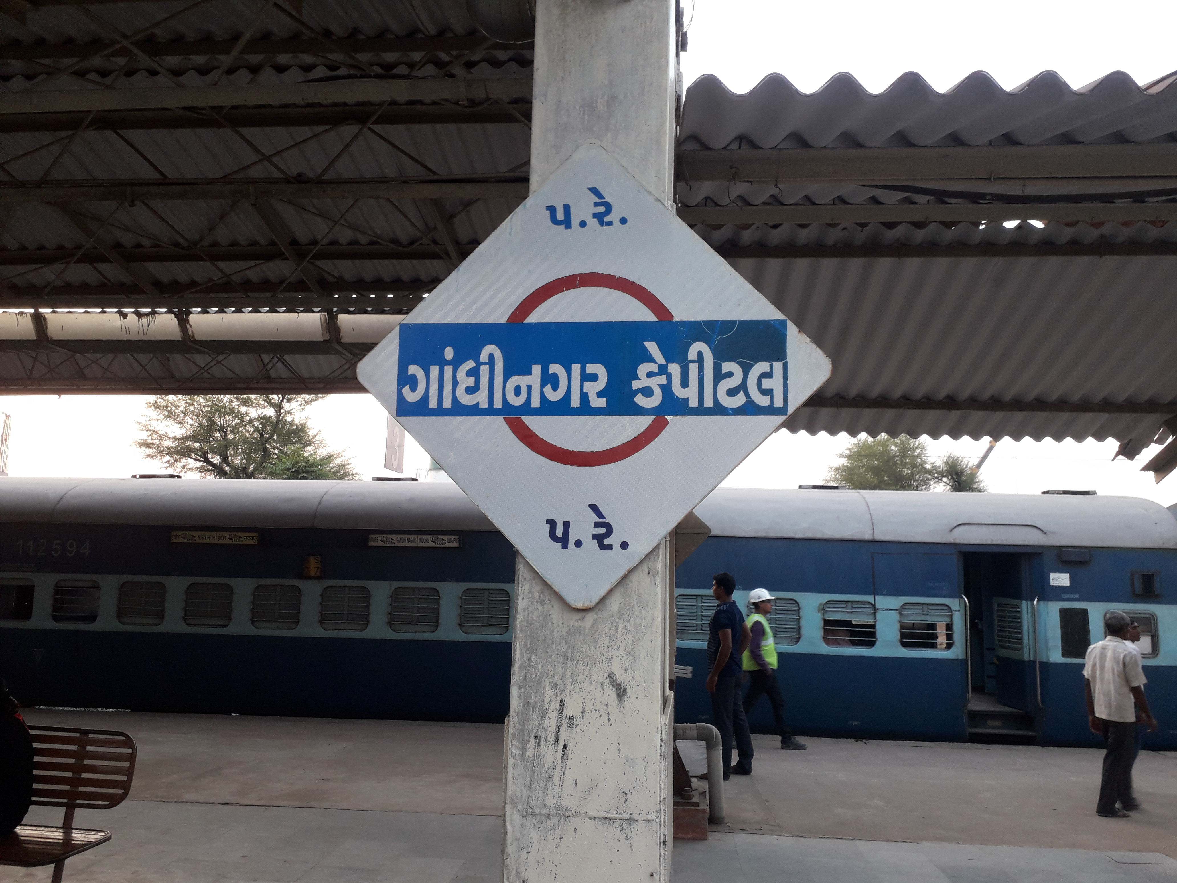 Gandhinagar Capital Gujarat - Platformboard - Gujarati